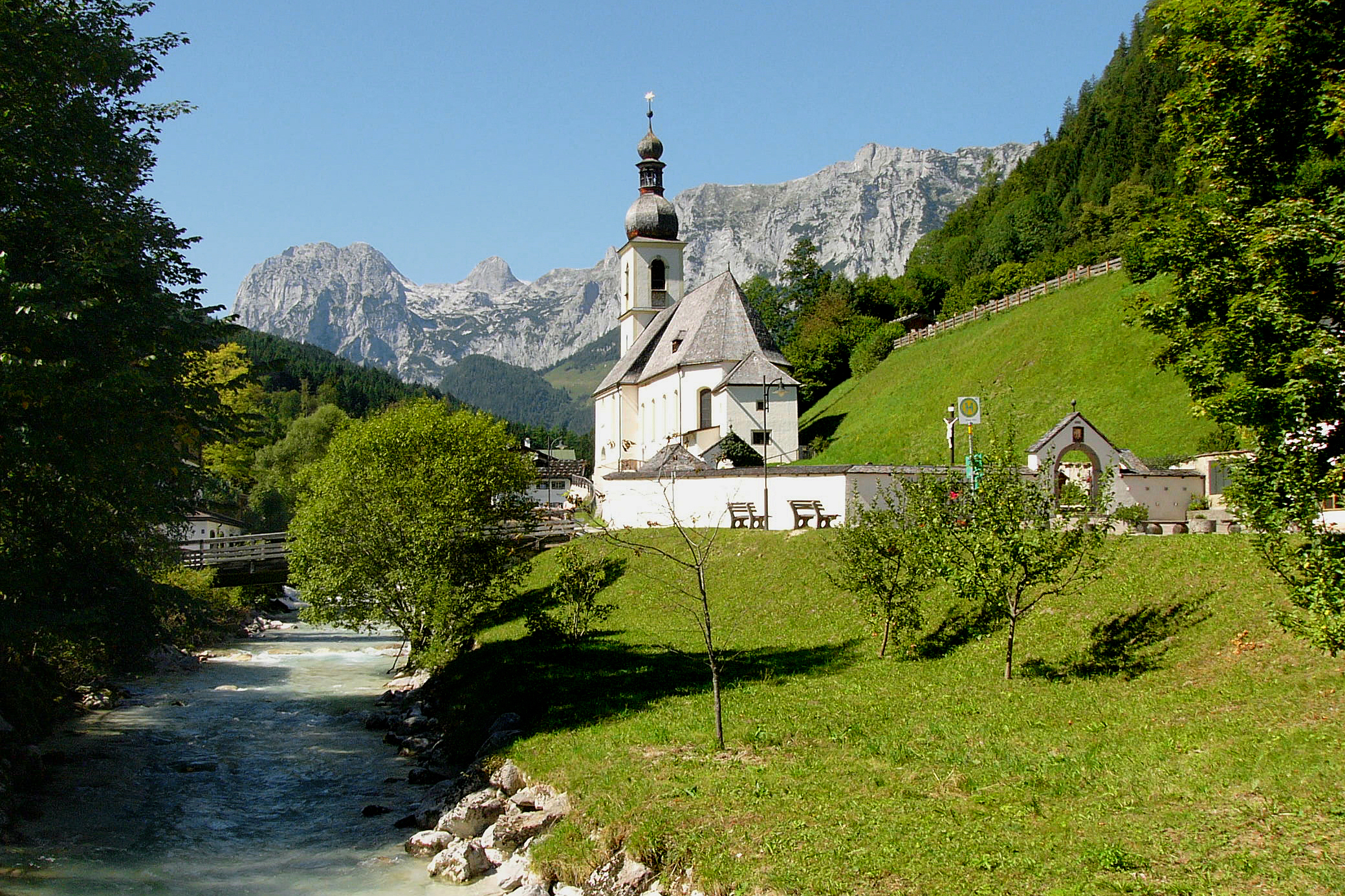 Church St. Sebastian in Ramsau, Bavaria, Germany